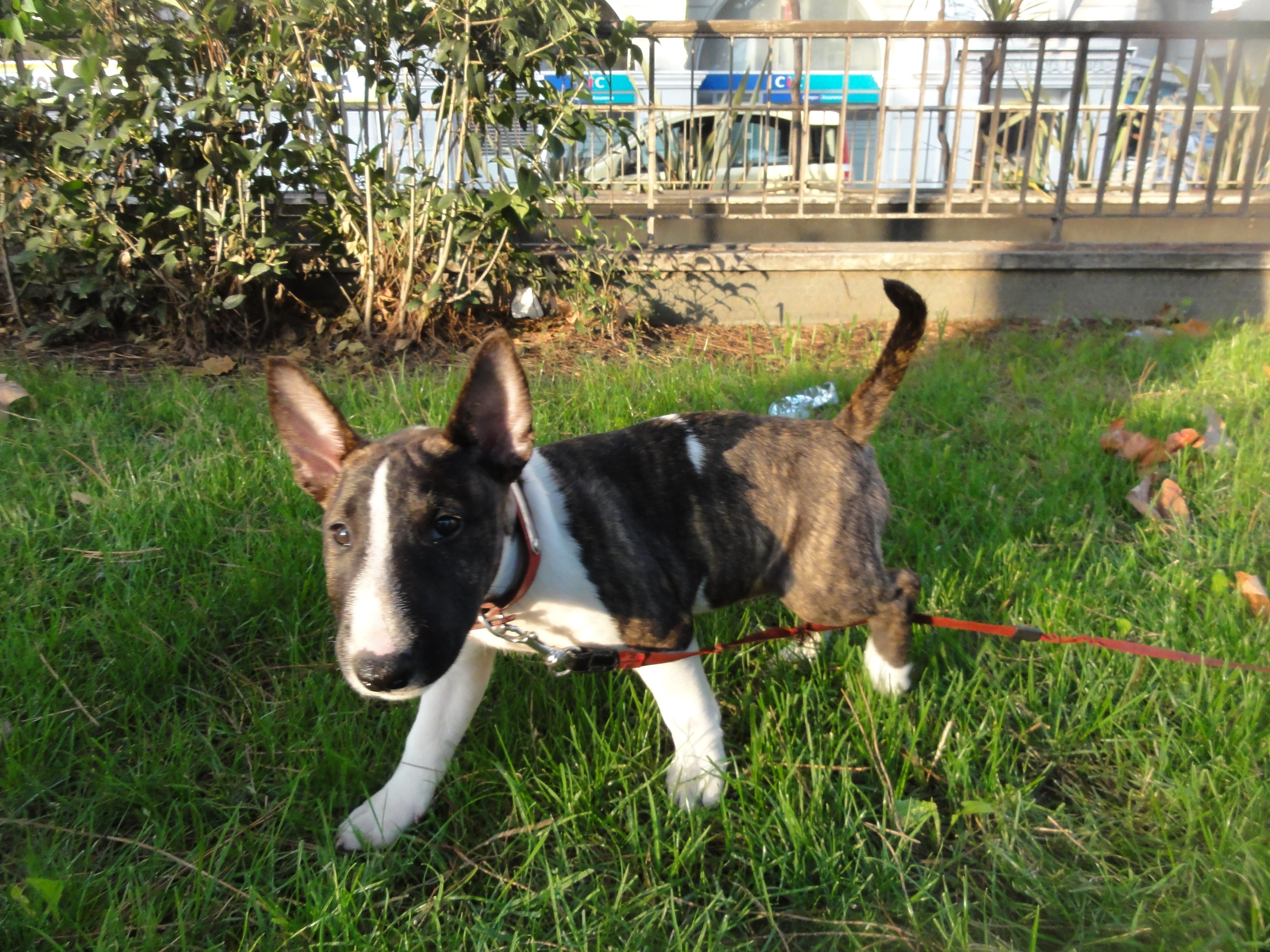 chiot bull terrier miniature femelle bringé et blanc 2 mois